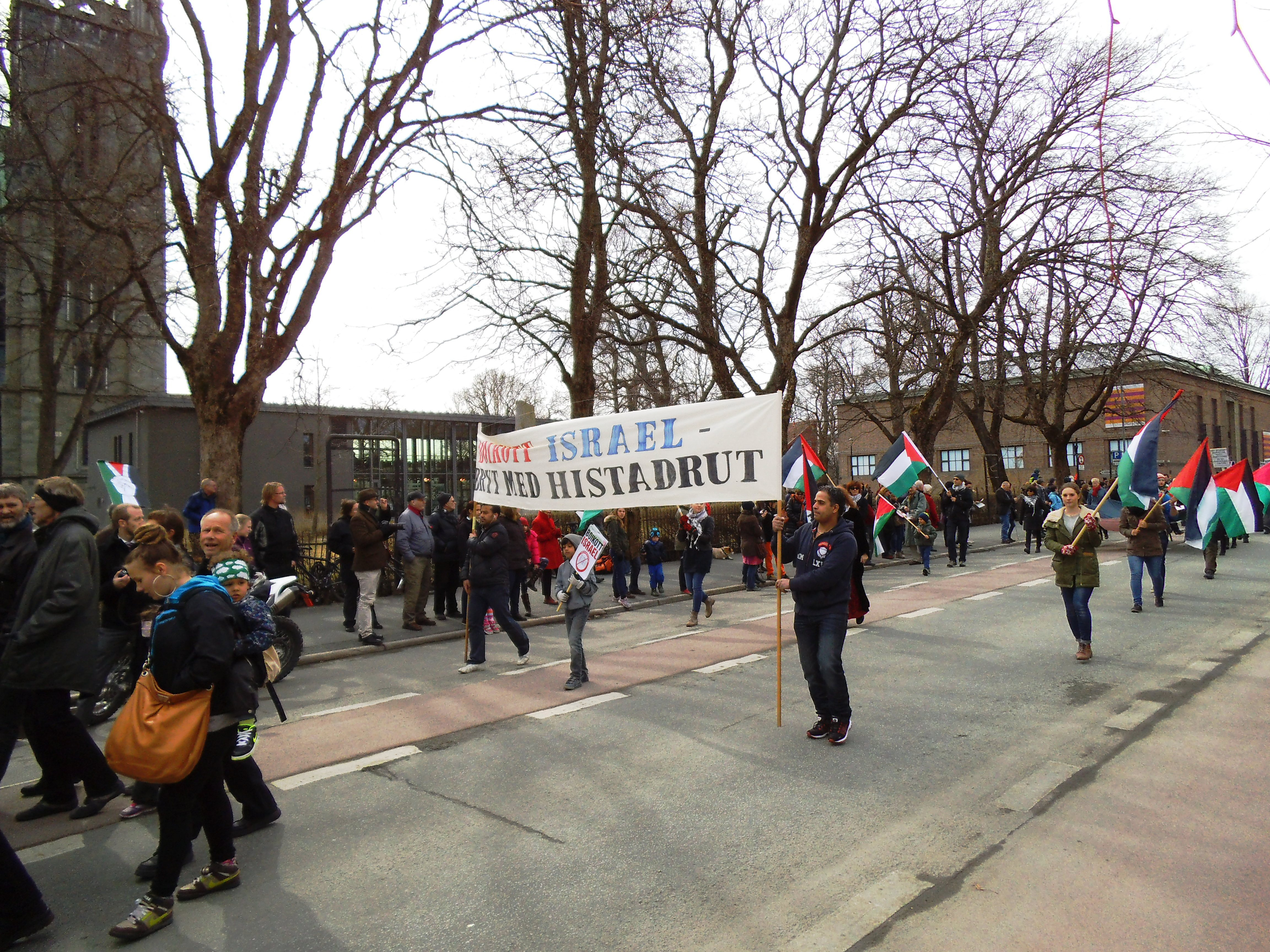 International Workers' Day in Trondheim 2013.